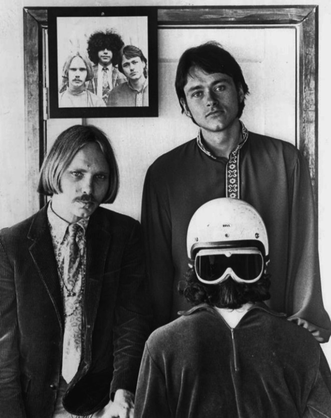 Publicity photo of the musical group The Youngbloods.